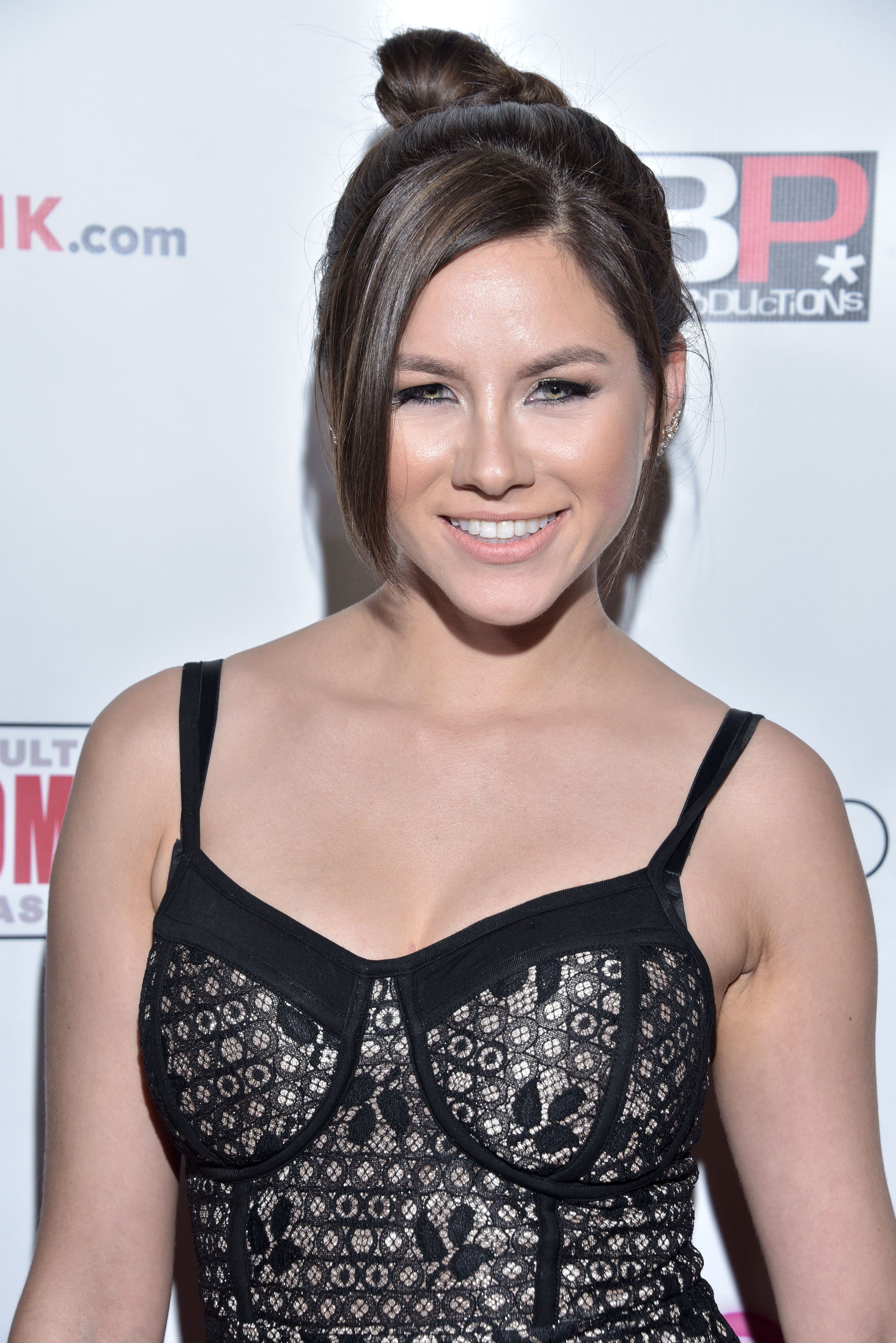 Shyla Jennings arriving at the XRCO Awards in Hollywood California on April 27, 2017 - Photo by Glenn Francis of